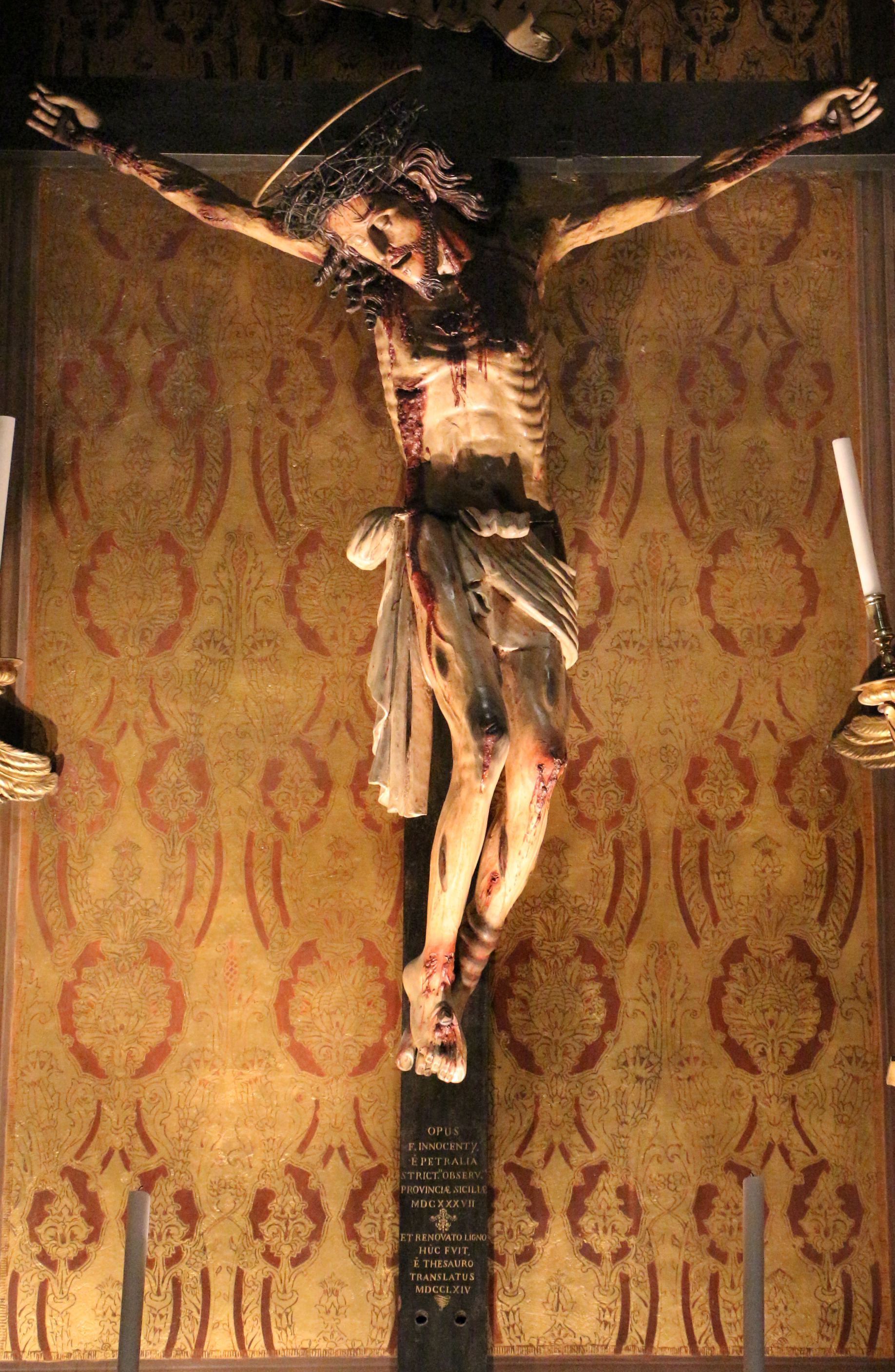 Santuario della Santa Casa (Loreto) - Interior